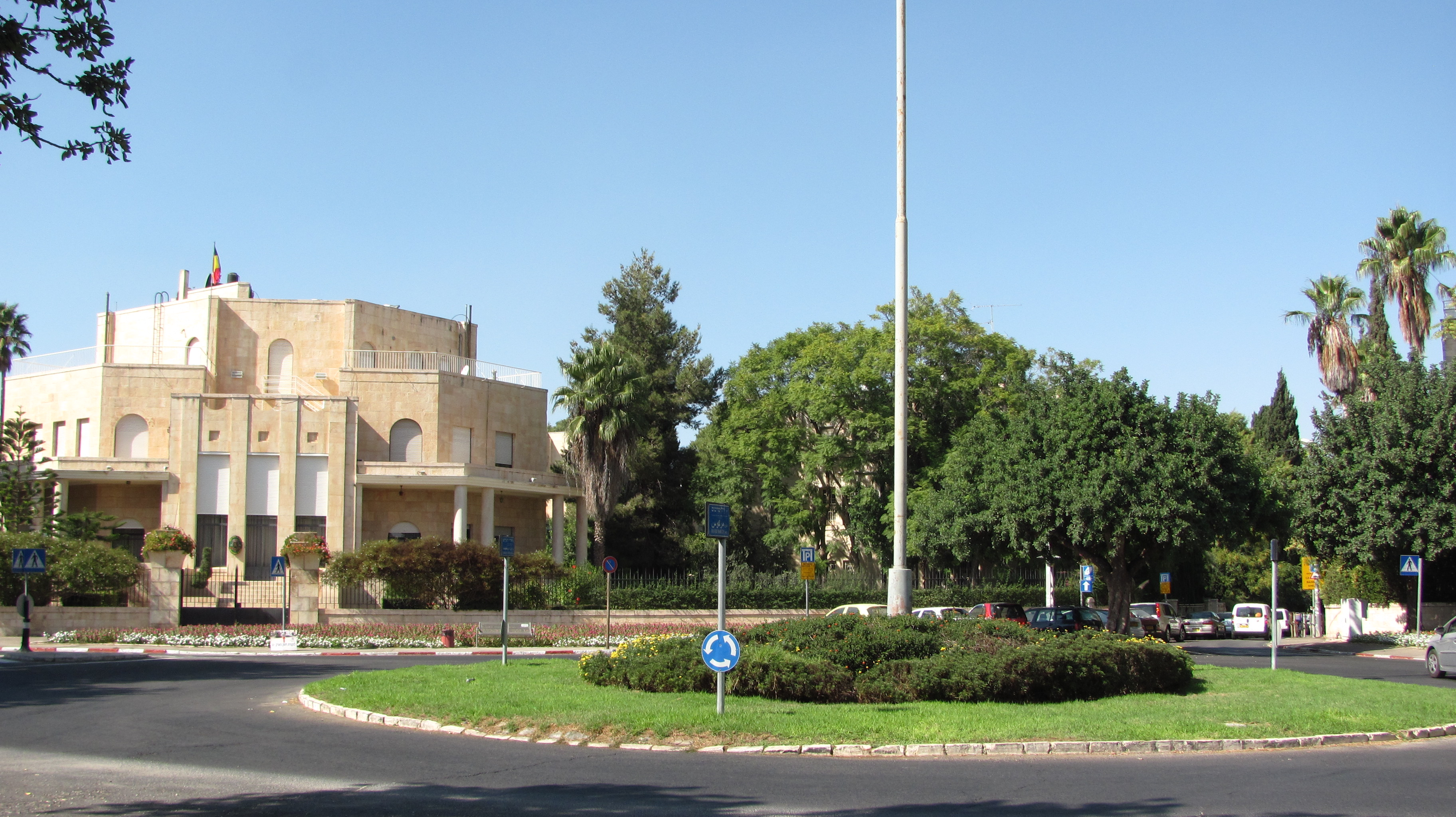 Orde Wingate Square in Jerusalem. Villa Salameh (the Belgian Consulate) is at left.